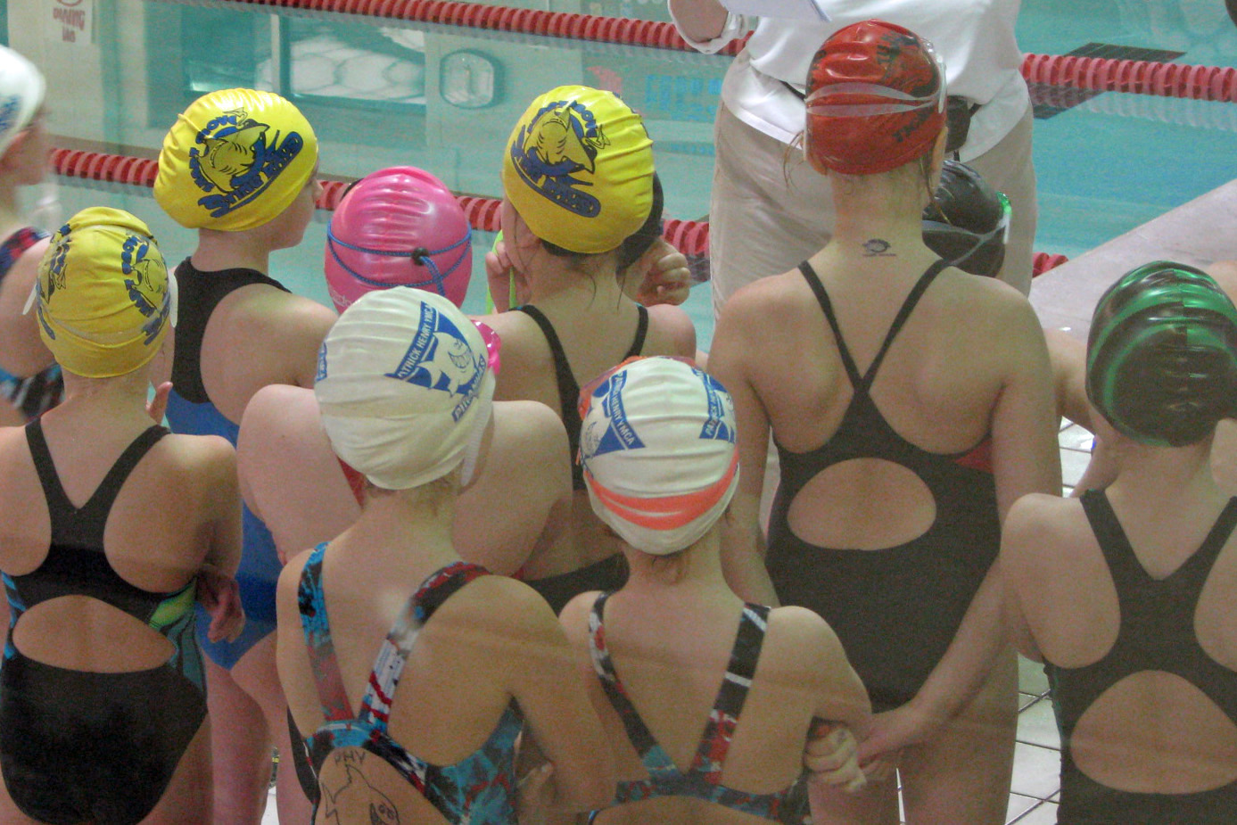 One of the fun parts of having all the different teams together for the champs is to see all the different suits and swimcaps. Here was a good shot of the girls and some of the variety in colors. Swim Meet Video